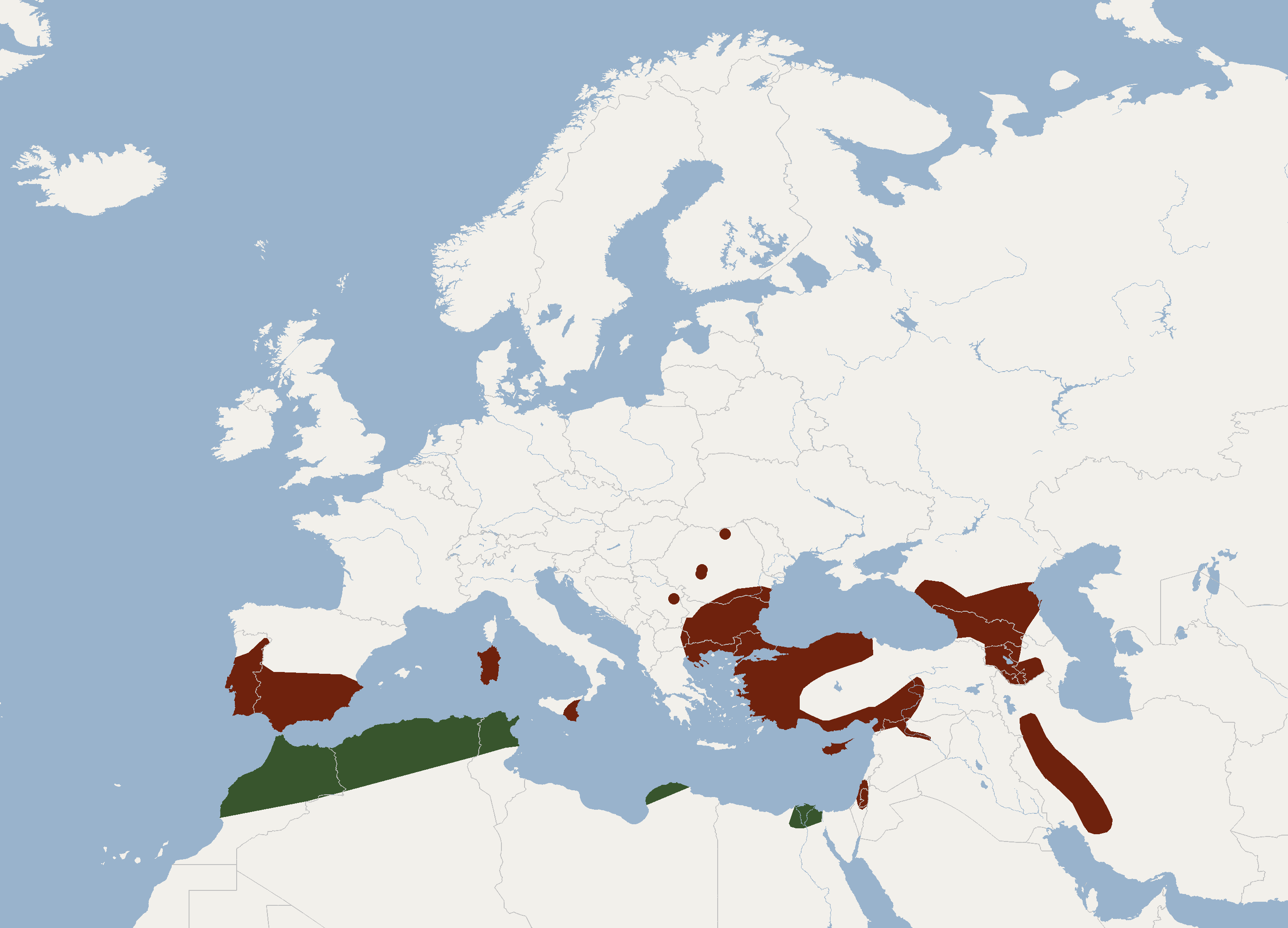 According to . Subspecies range: R.m.mehelyi in brown, R.m.tuneti in green R.m.mehelyi R.m.tuneti